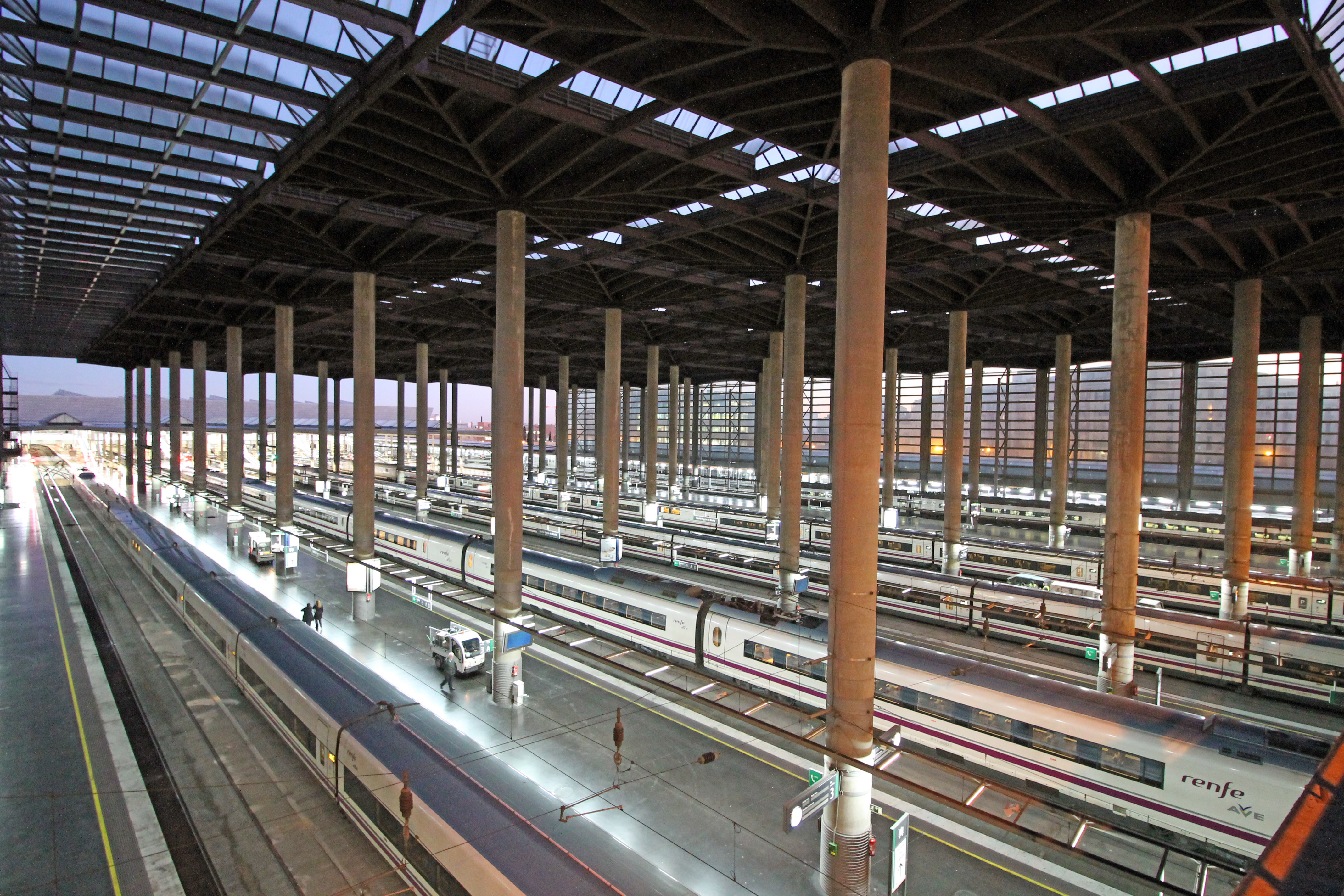 Interior of Atocha station in Madrid (Spain).